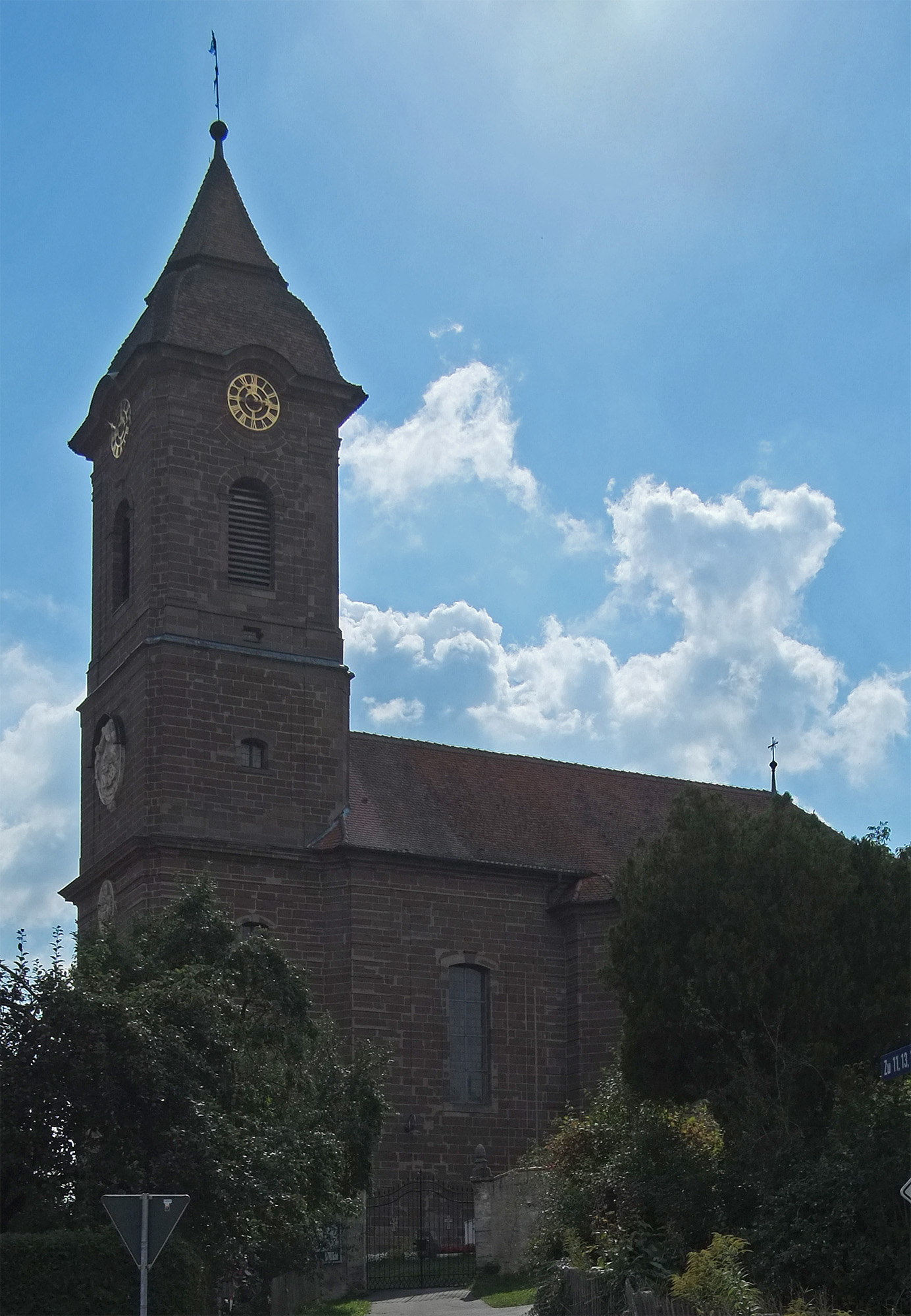 This is a photograph of an architectural monument.